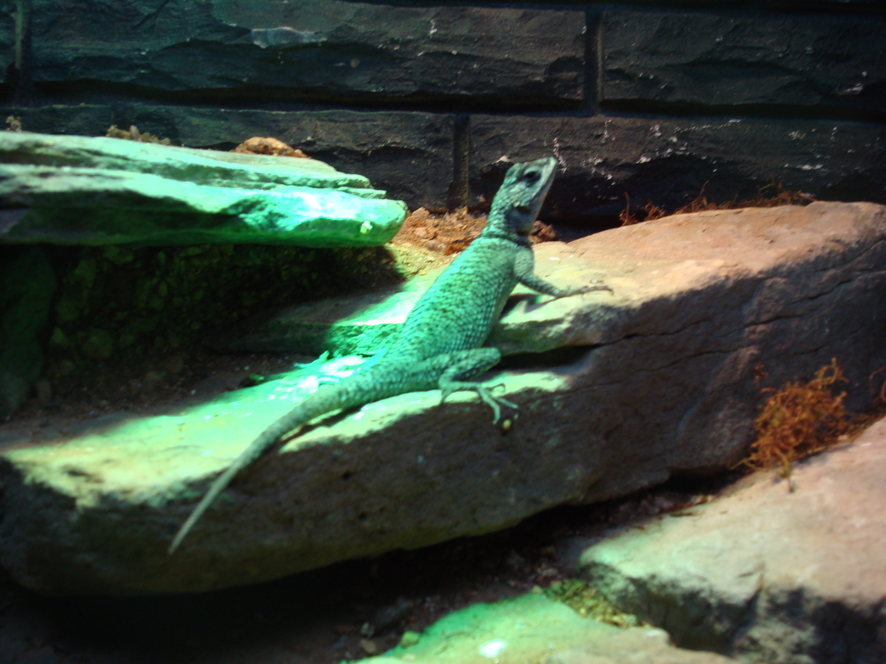 Tamaulipan Rock Lizard Xenosaurus platyceps south central Tamaulipas, Mexico Found only in the stat of Tamaulipas Flattened body allows it to live between rocks and crevices